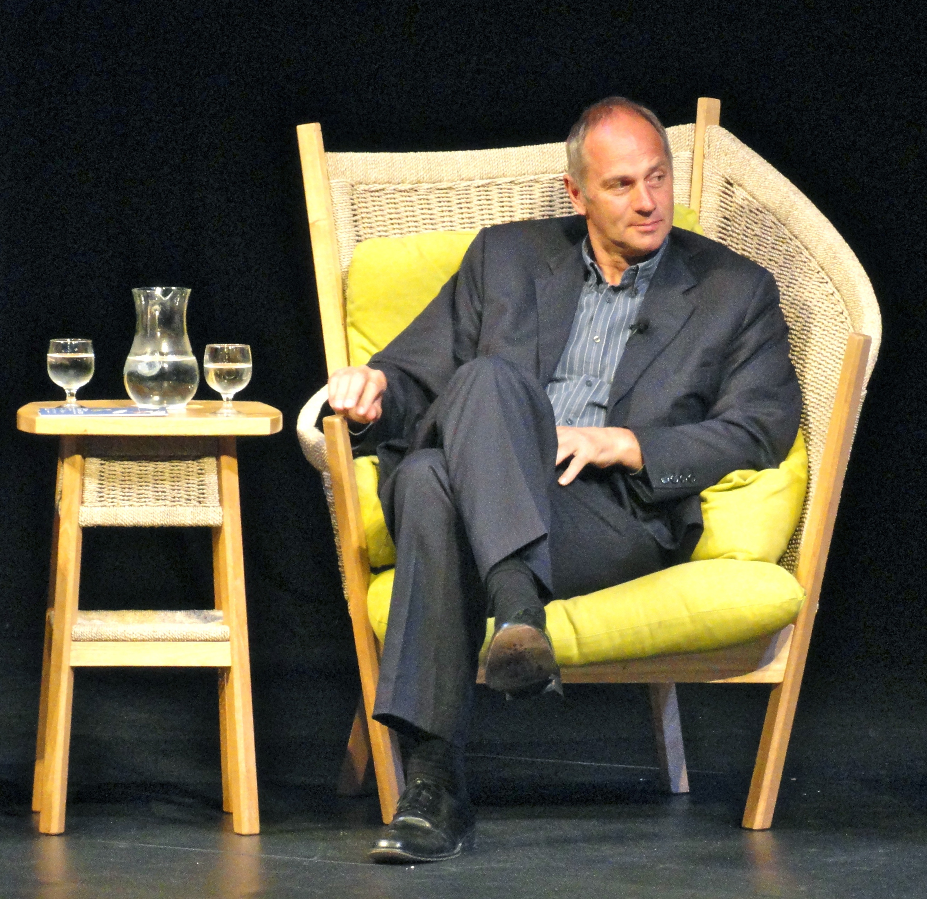 Sir Steve Redgrave, British Olympic athlete, on stage in Salisbury, England.